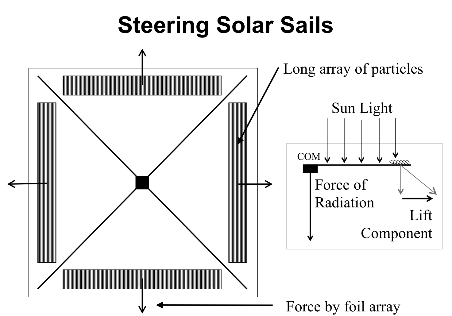 Arrays of lightfoils, called flying carpets, may be integrated onto current solar sails to provide both passive and active options of steering control with radiation pressure that does not require a change in the sail attitude. This eliminates the need for mechanical steering controls.